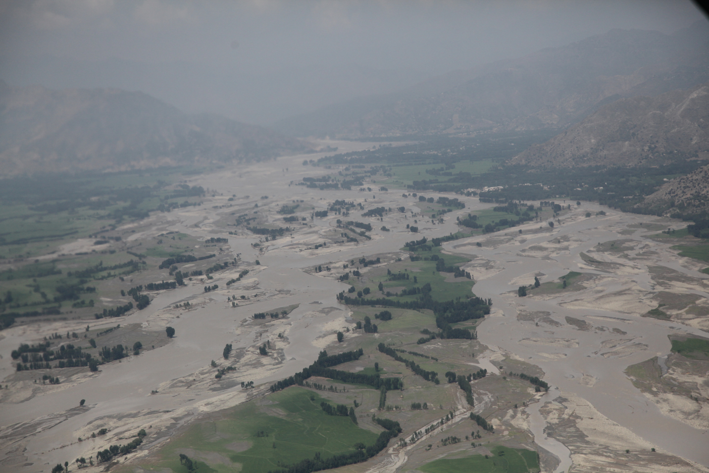 An aerial view of the damaged countryside is shown in Pakistan August 5th, 2010, from a U.S. Army CH-47 Chinook helicopter en route to deliver humanitarian assistance supplies. Department of Defense personnel are in the area supporting humanitarian relief and evacuation missions as part of the disaster relief efforts to assist Pakistanis in flood-stricken regions of the nation.